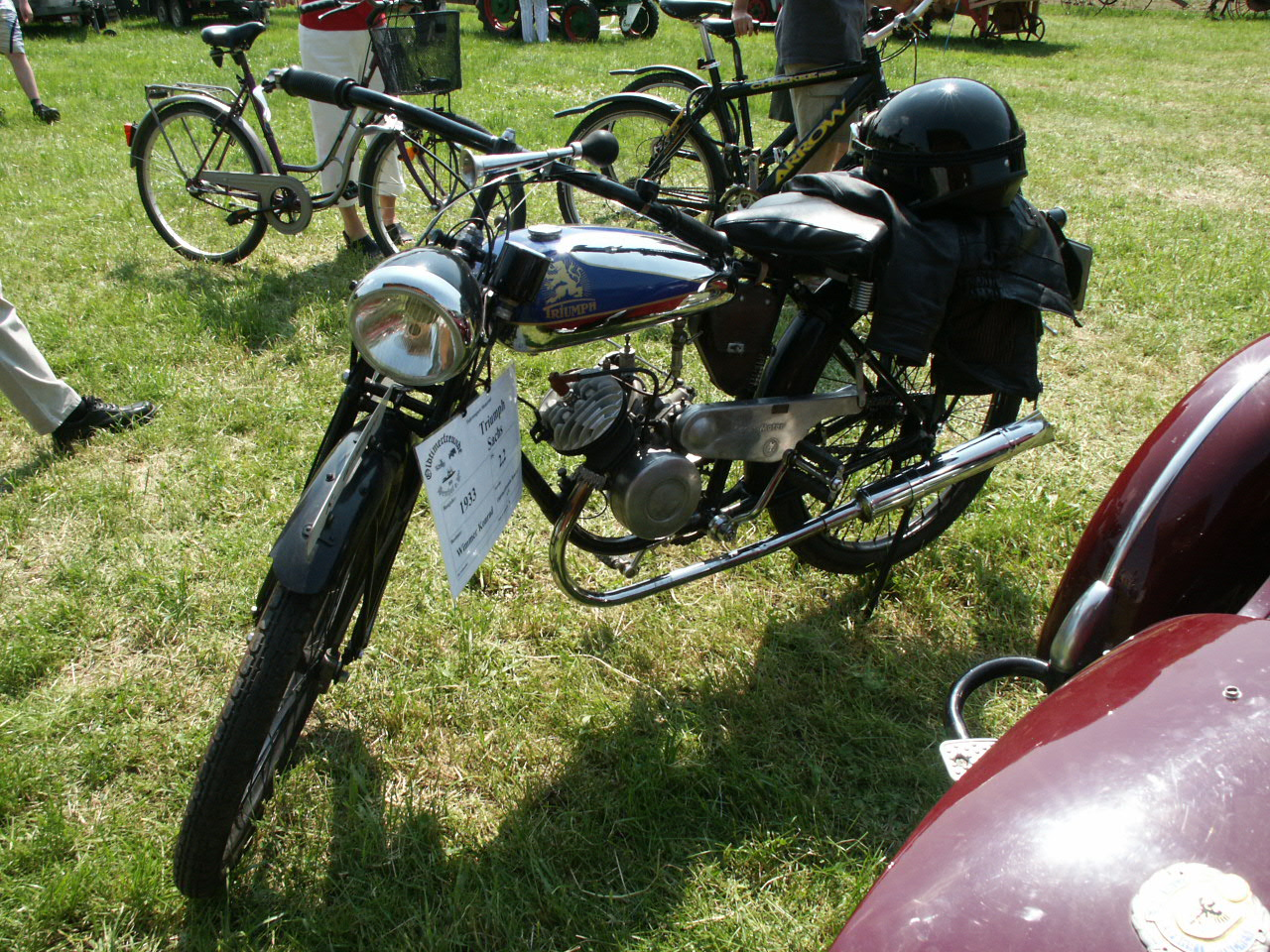 Triumph motorcycle